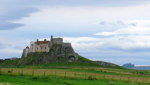 Holy Island View south from near Lilburns cottage with Lindisfarne Castle behind and Bamburgh Castle in the far distance.